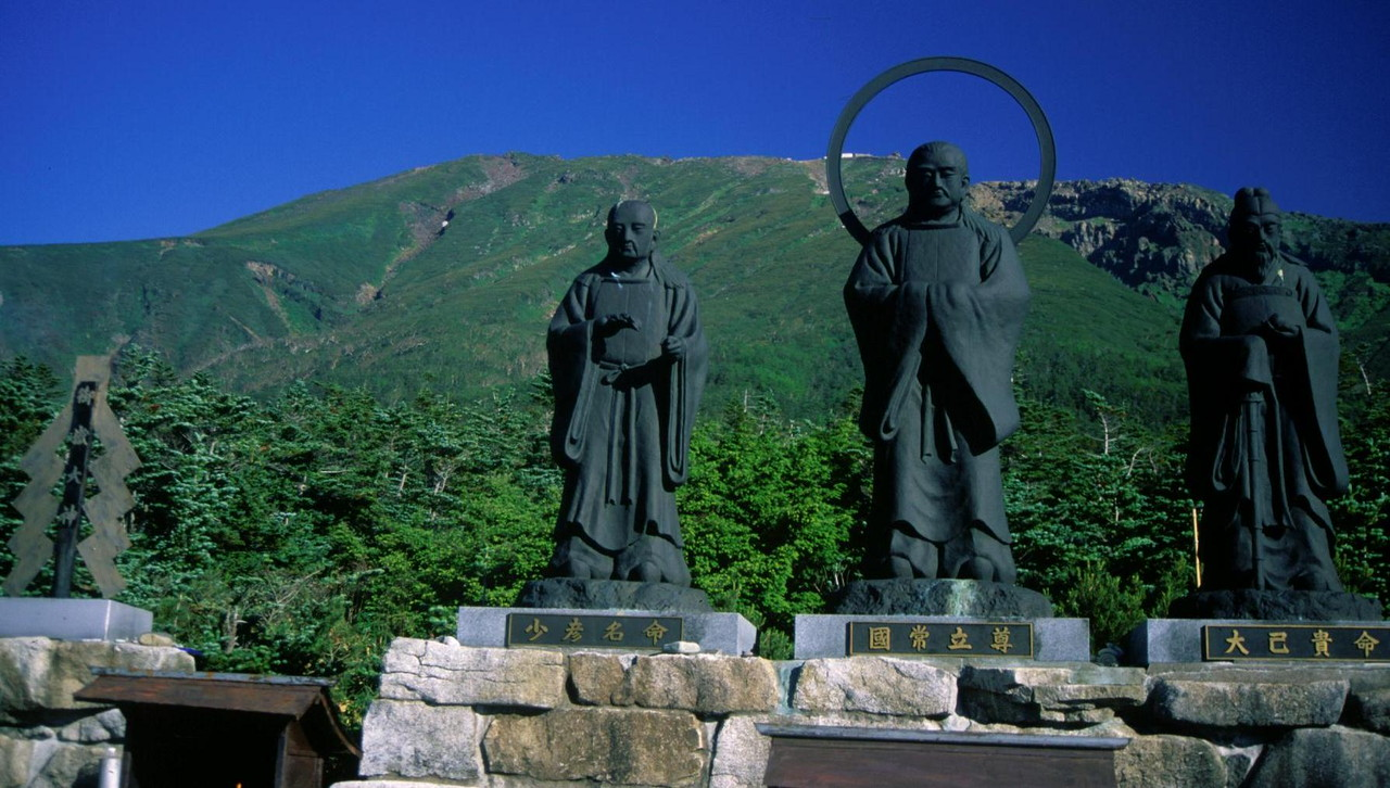 Mount Ontake from Tanohara